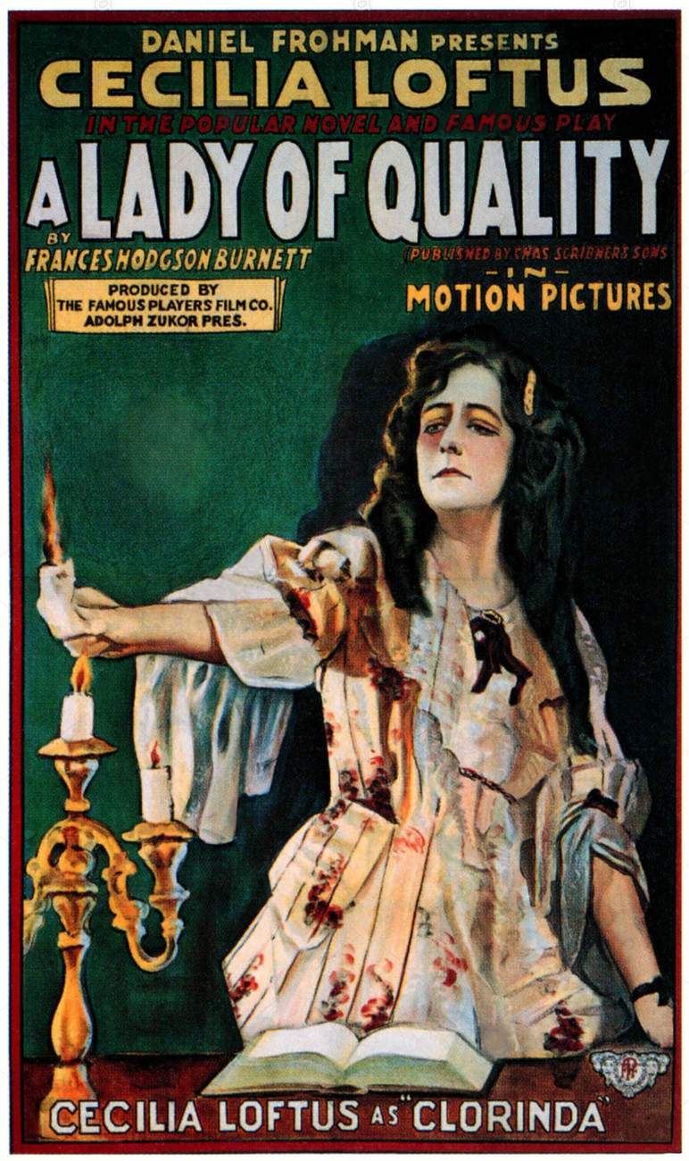 Poster for the American drama film A Lady of Quality (1913).